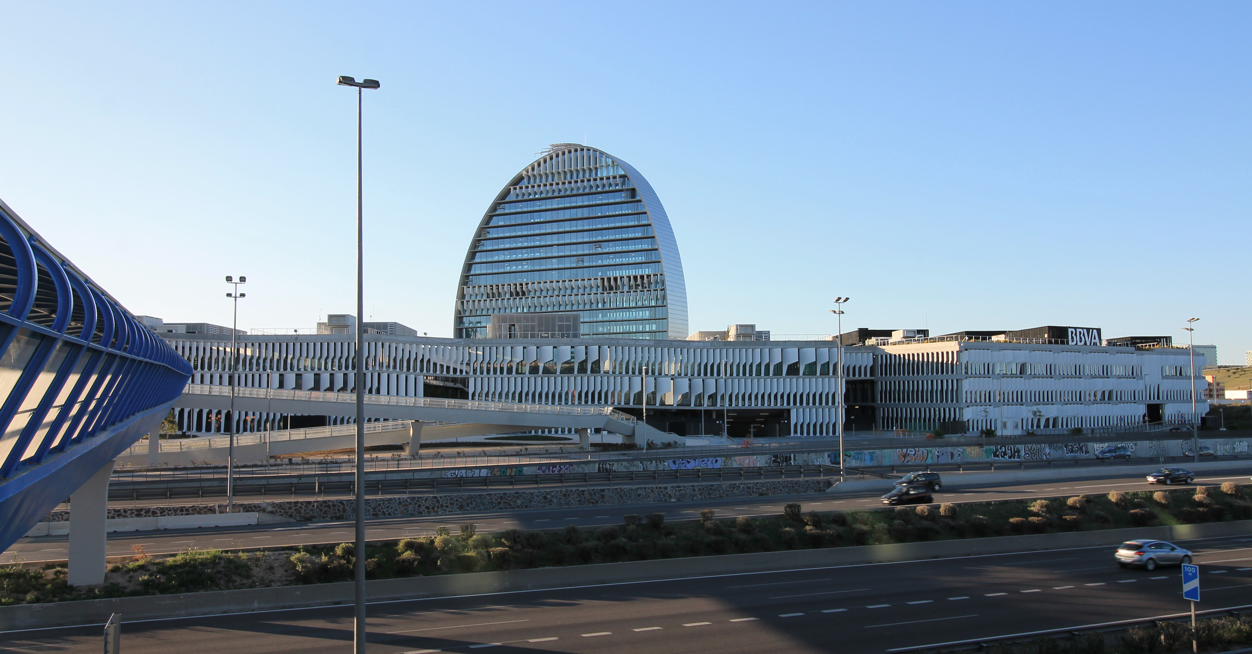 Façade of BBVA head offices (Madrid, Spain).